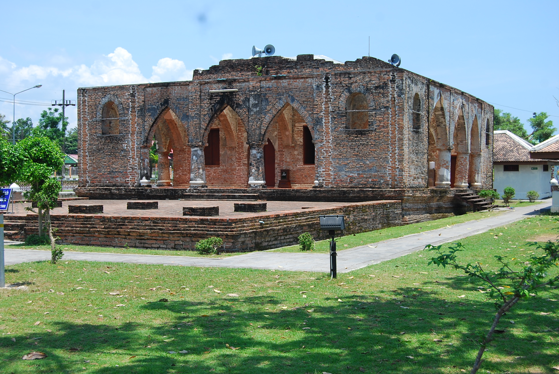 Krue Se Mosque (or Pitu Krue-ban Mosque) is located in Pattani Province, Thailand.